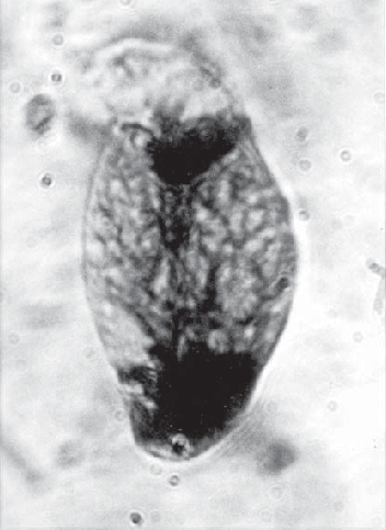 Photo and drawing of Sauromonites katatonis F = flagellum, A = axostyle, N = nucleus. Bar = 22 μm.